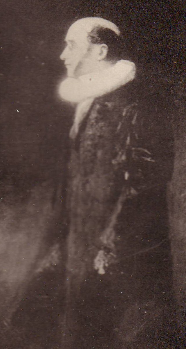 Chapeaurouge, Frederic Charles Adolph de 1813-1869